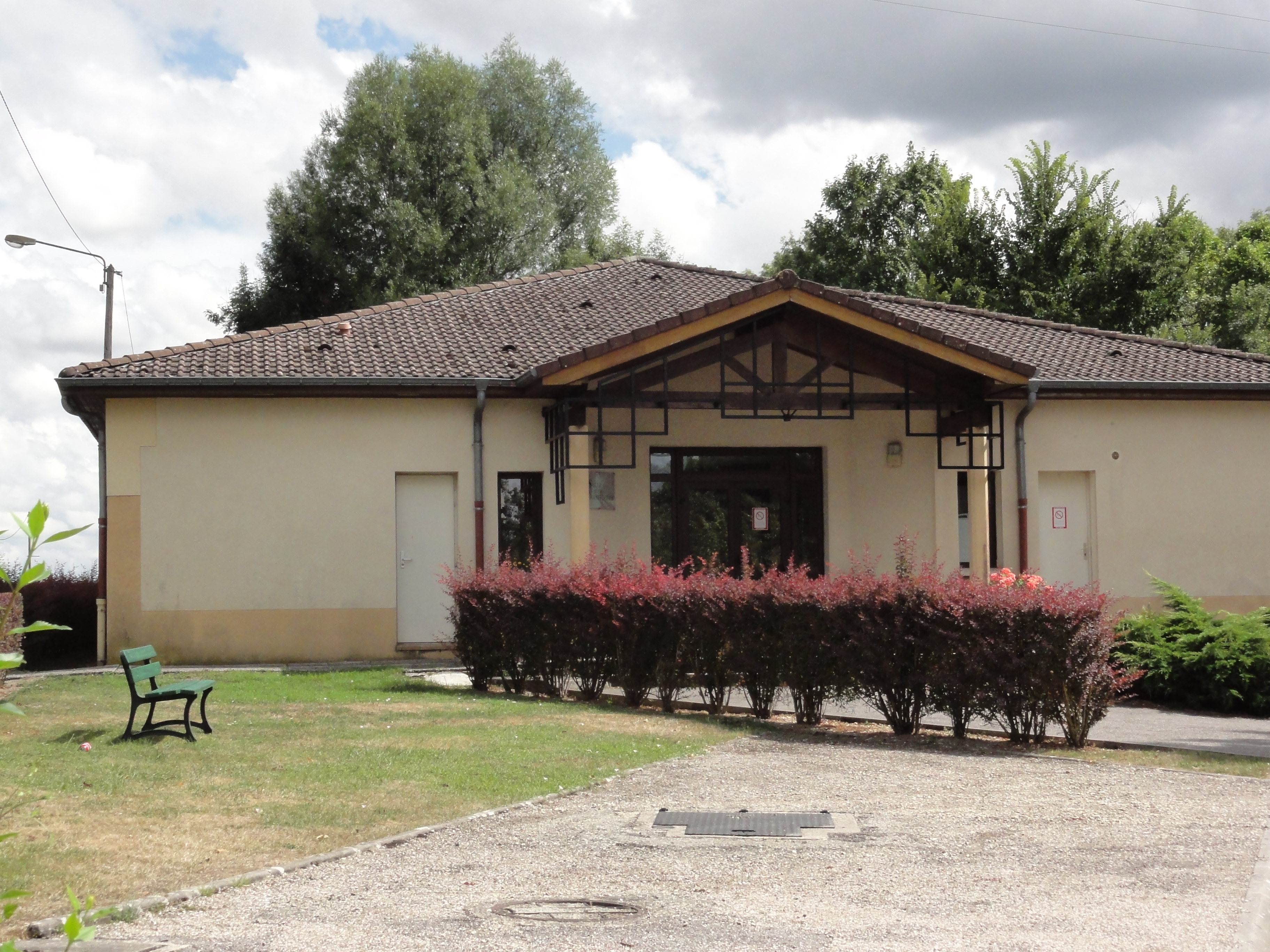 Guerpont (Meuse) salle polyvalente